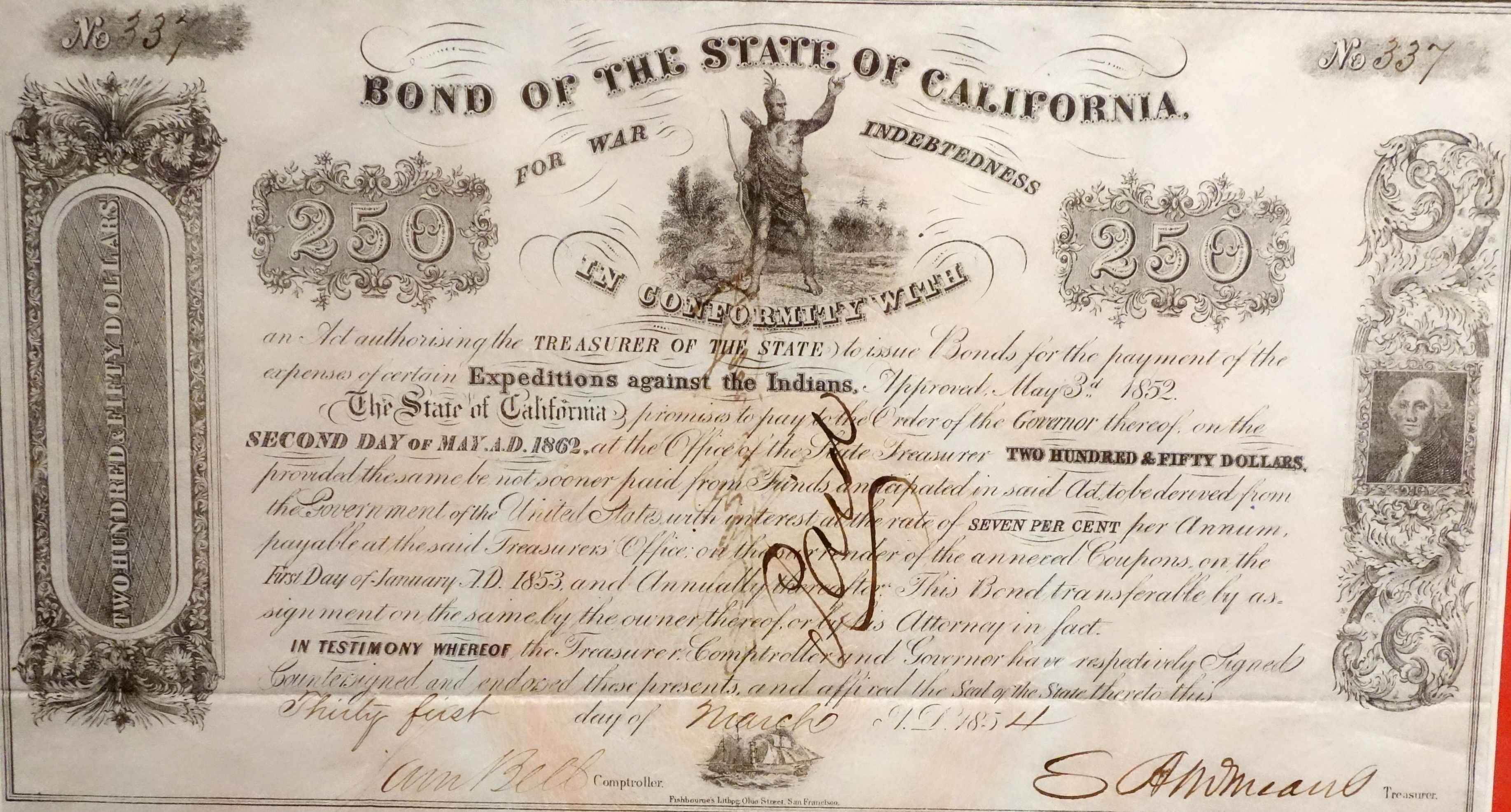 Exhibit in the Oakland Museum of California, Oakland, California, USA. This work is in the public domain because its maker died more than 70 years ago.